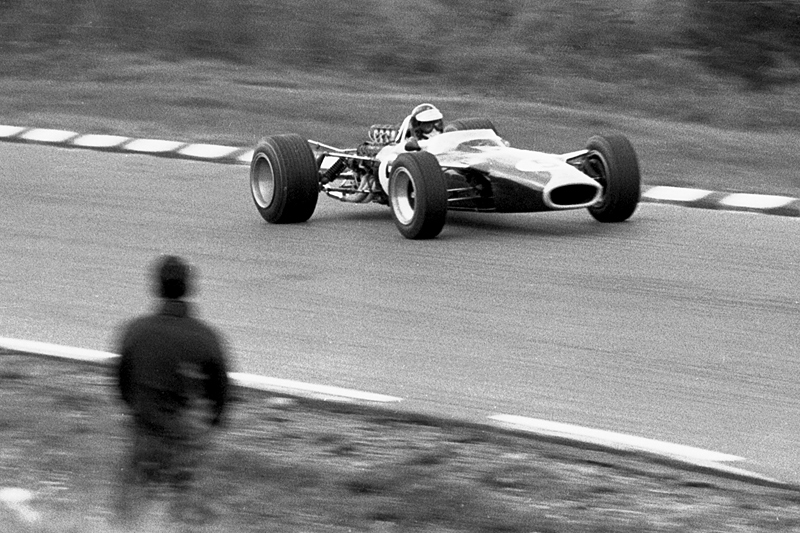 Jim Clark at the 1967 USGP in Watkins Glen, NY